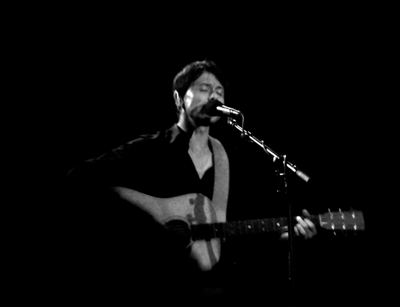 Brett Anderson concert at the Melkweg (Amsterdam, the Netherlands)